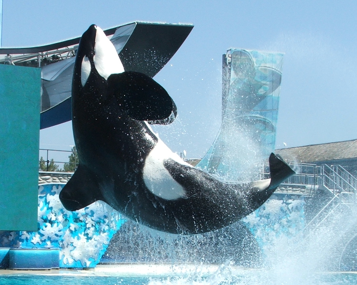 Orca show at Sea World San Diego